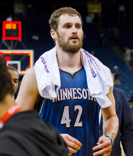 Kevin Love with the Minnesota Timberwolves